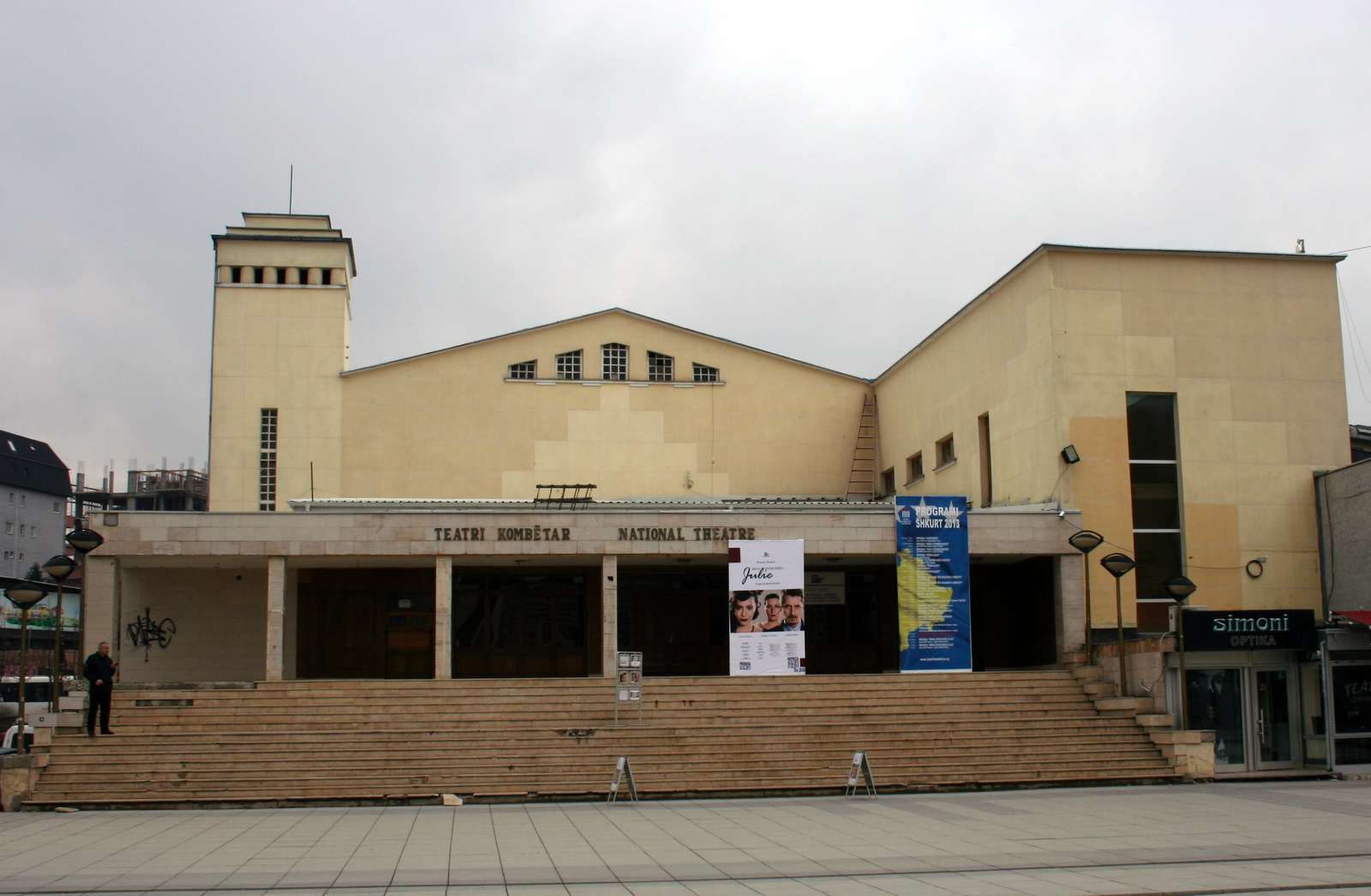 National Theatre - Prishtina